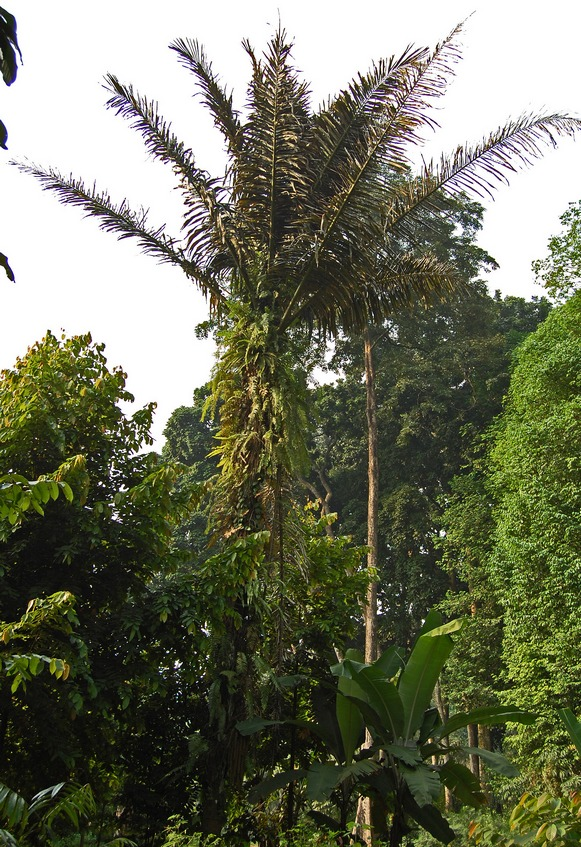 Arenga pinnata tree. From Bogor, West Java, Indonesia